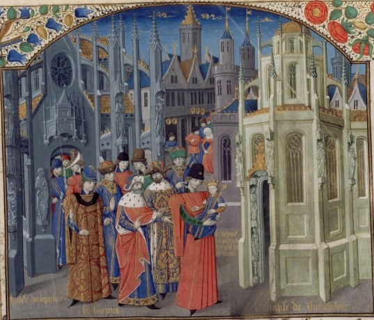 Miniature: coronatrion of Baldwin V